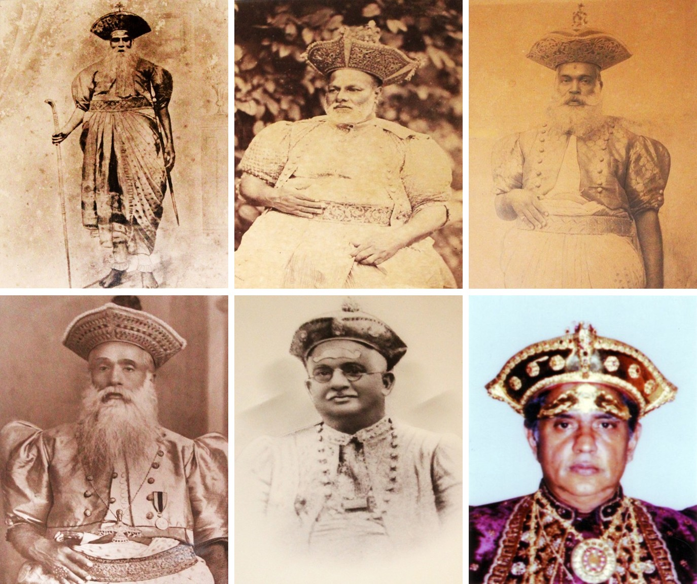 Notable Diyawadana Nilames of Past. First Row, Left to Right: Dullewa Adikaram Nilame - Duration 1842 - 1848. Kuda Mudiyanse Giragama Nilame - Duration 1882 - 1897. Seneviratne Ratwatte Nilame - Duration 1897 - 1901. Second Row, Left to Right: Kudabanda Nugawela Nilame - Duration 1901 - 1916. Punchi Banda Nugawela Nilame - Duration 1916 - 1937. Nissanka Parakrama Wijeyeratne Nilame - Duration 1975 – 1985.